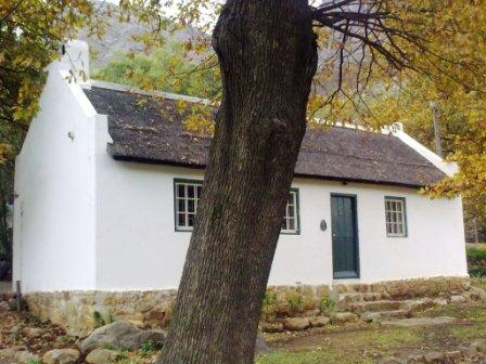 Build in 1848 by Andrew Geddes Bain and named for the surveyor-general of the Cape, Charles Colliers Michell, Michell's Pass replaced the precipitous Mostertshoek Pass build by Jan Mostert in 1765. This media shows a South African Protected Site with SAHRA file reference 9/2/021/0013.